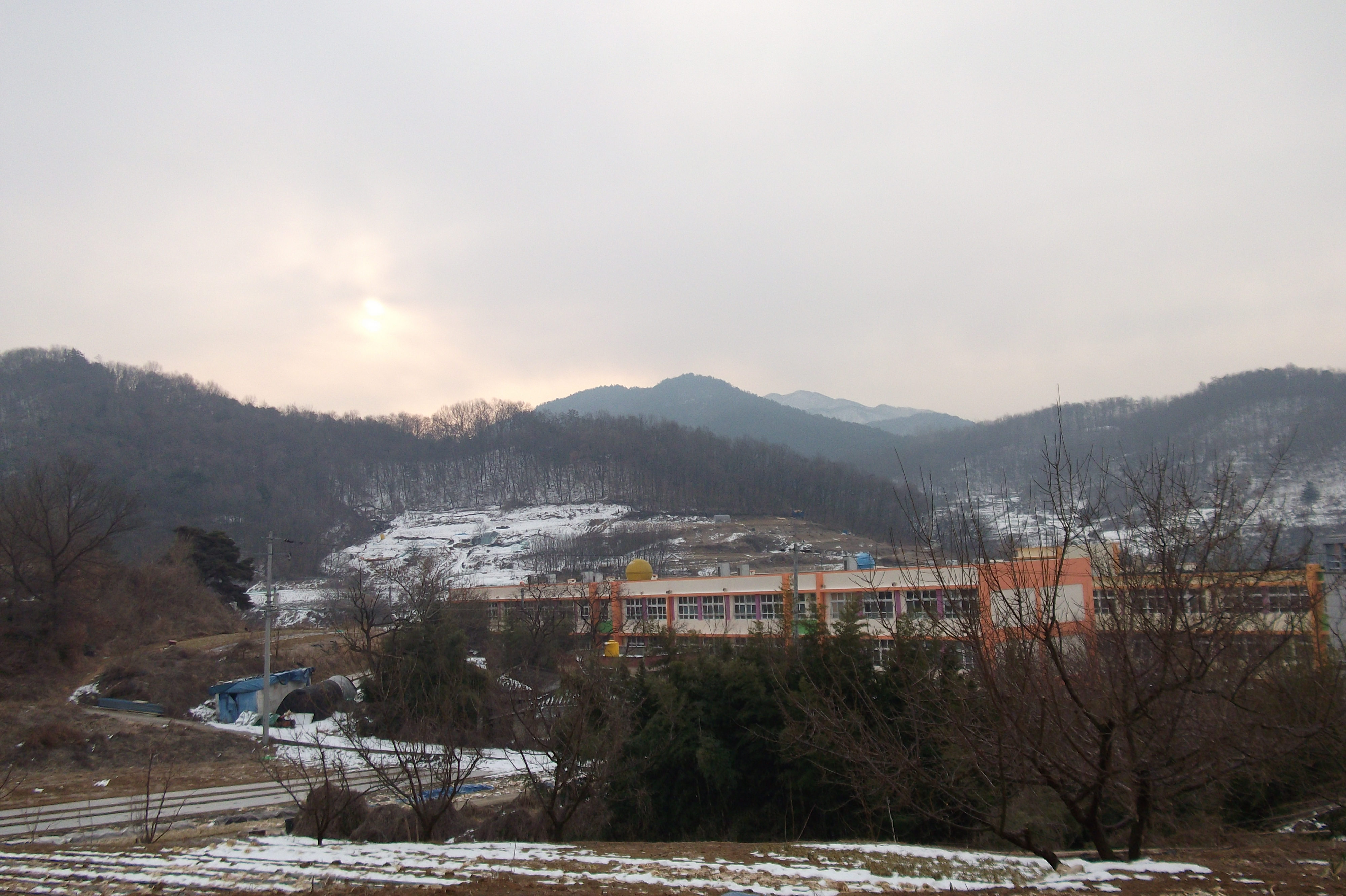 Gumi nature scene